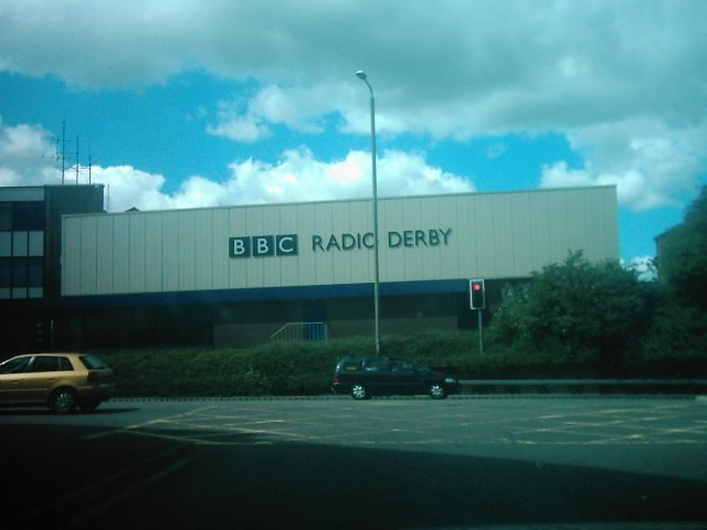 B.B.C. Radio Derby The main building of Radio Derby.